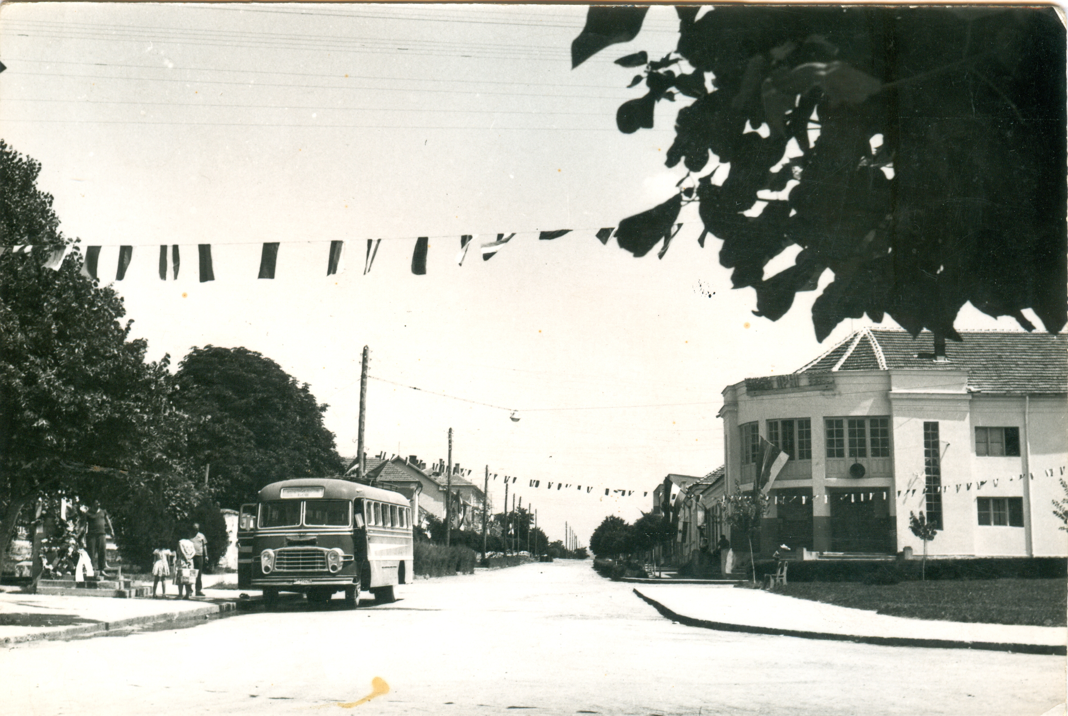 Kladovo in the 1960s Srpski (latinica): Kladovo šezdesetih godina prošlog veka